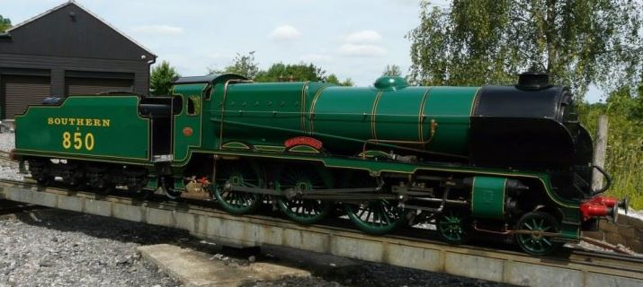 Lord Nelson